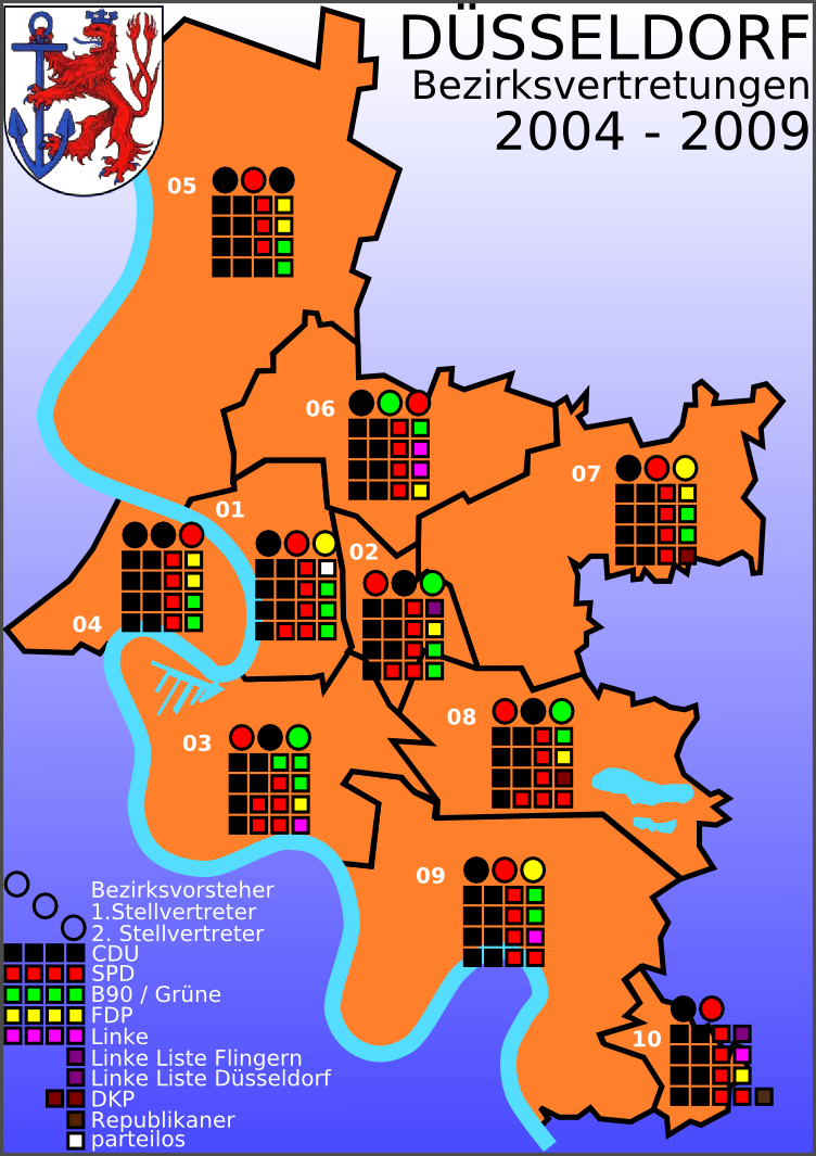 district representation in Düsseldorf 2004 - 2009